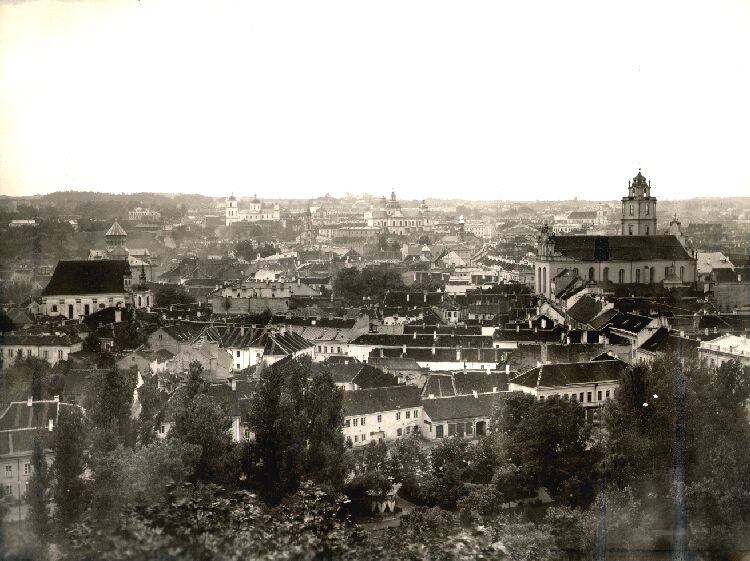 Panorama of Lithuanian capital city Vilnius 14